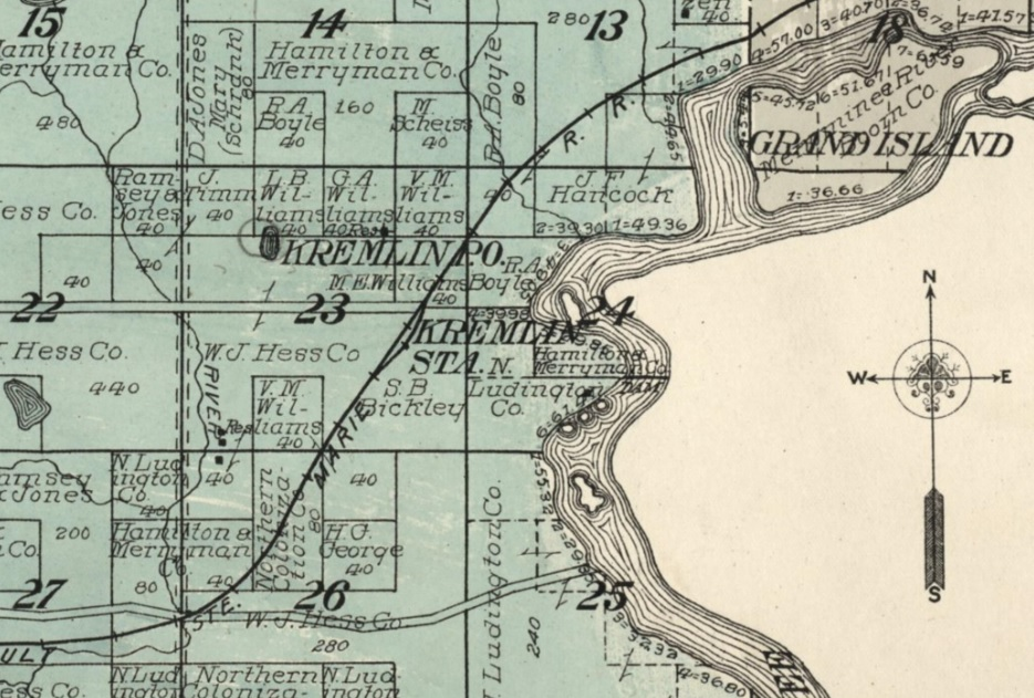 Map detail of Kremlin Wisconsin. From Standard Atlas of Marinette County Wisconsin Including a Plat Book of the Villages, Cities and Townships of the County. 1912. Chicago: Geo. A. Ogle & Co.